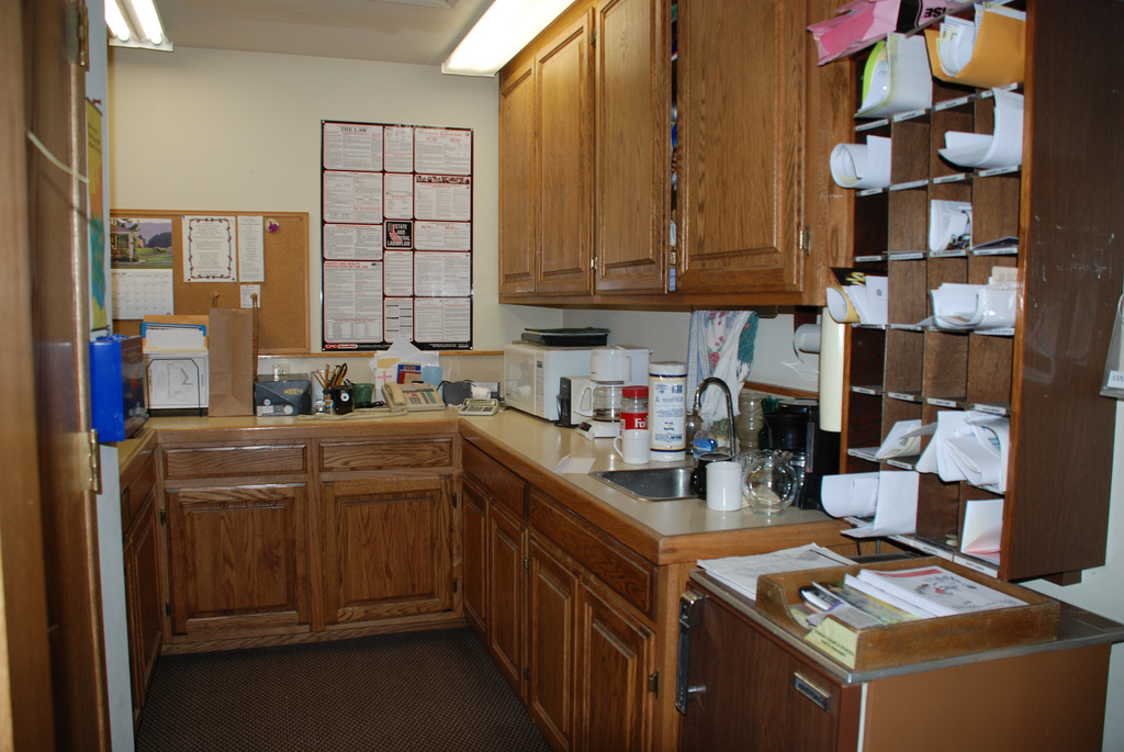 A typical mailroom and kitchenette